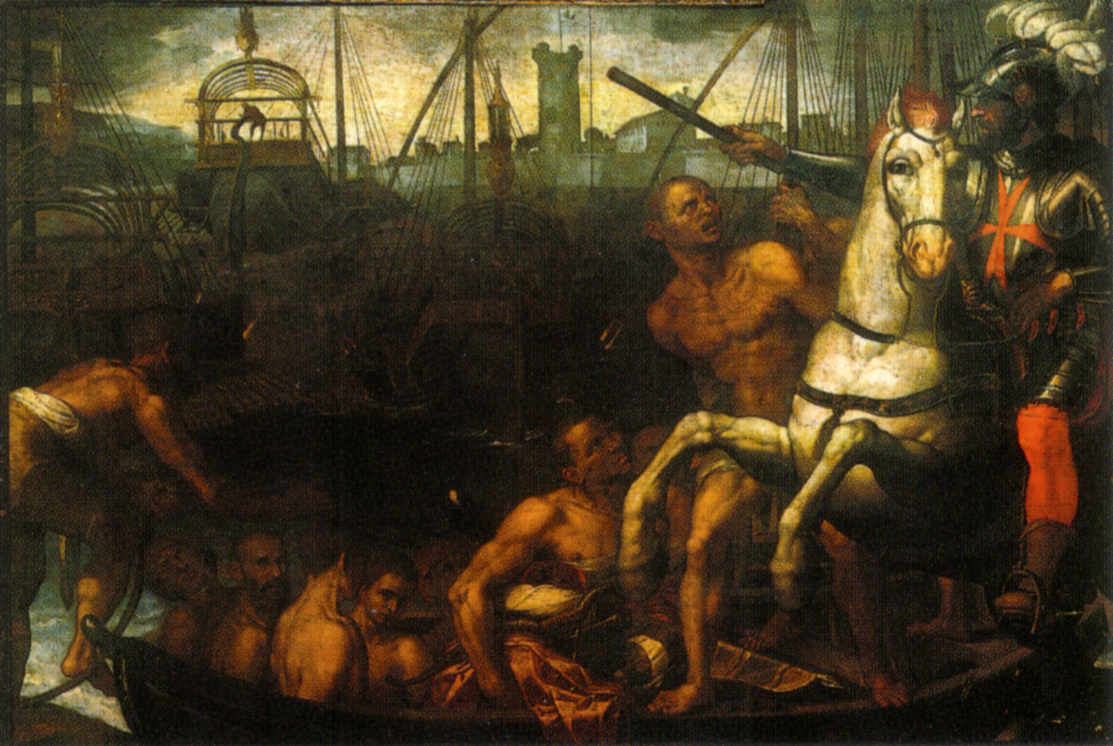 Jacopo Ligozzi, The Return of the Knights of Santo Stefano from the Battle of Lepanto. Oil on canvas. Church of Santo Stefano dei Cavalieri, Pisa.